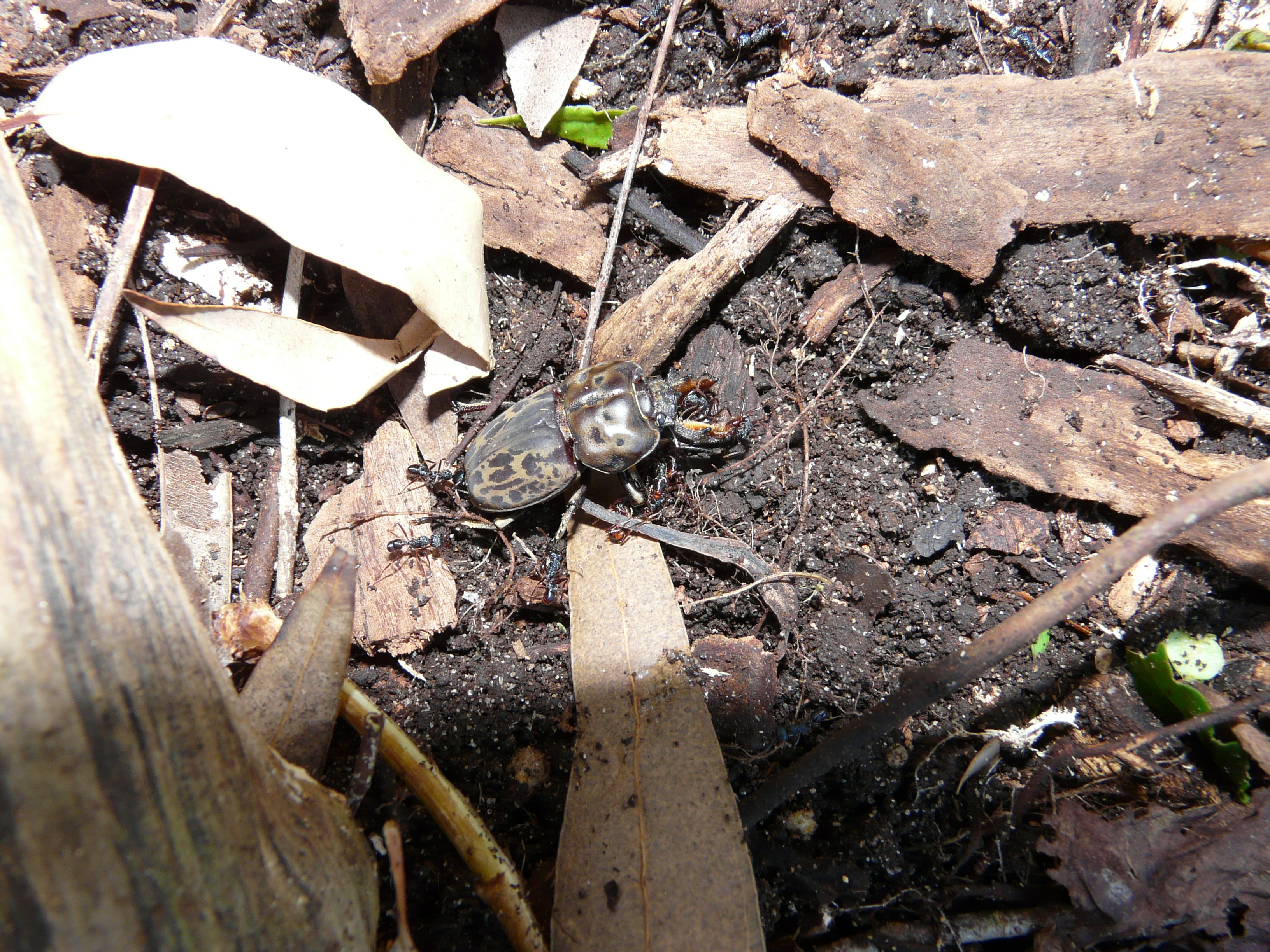 Brown stag beetle (Rhyssonotus nebulosus) being harassed by ants in the leaf litter at Badangi Reserve, Wollstonecraft.